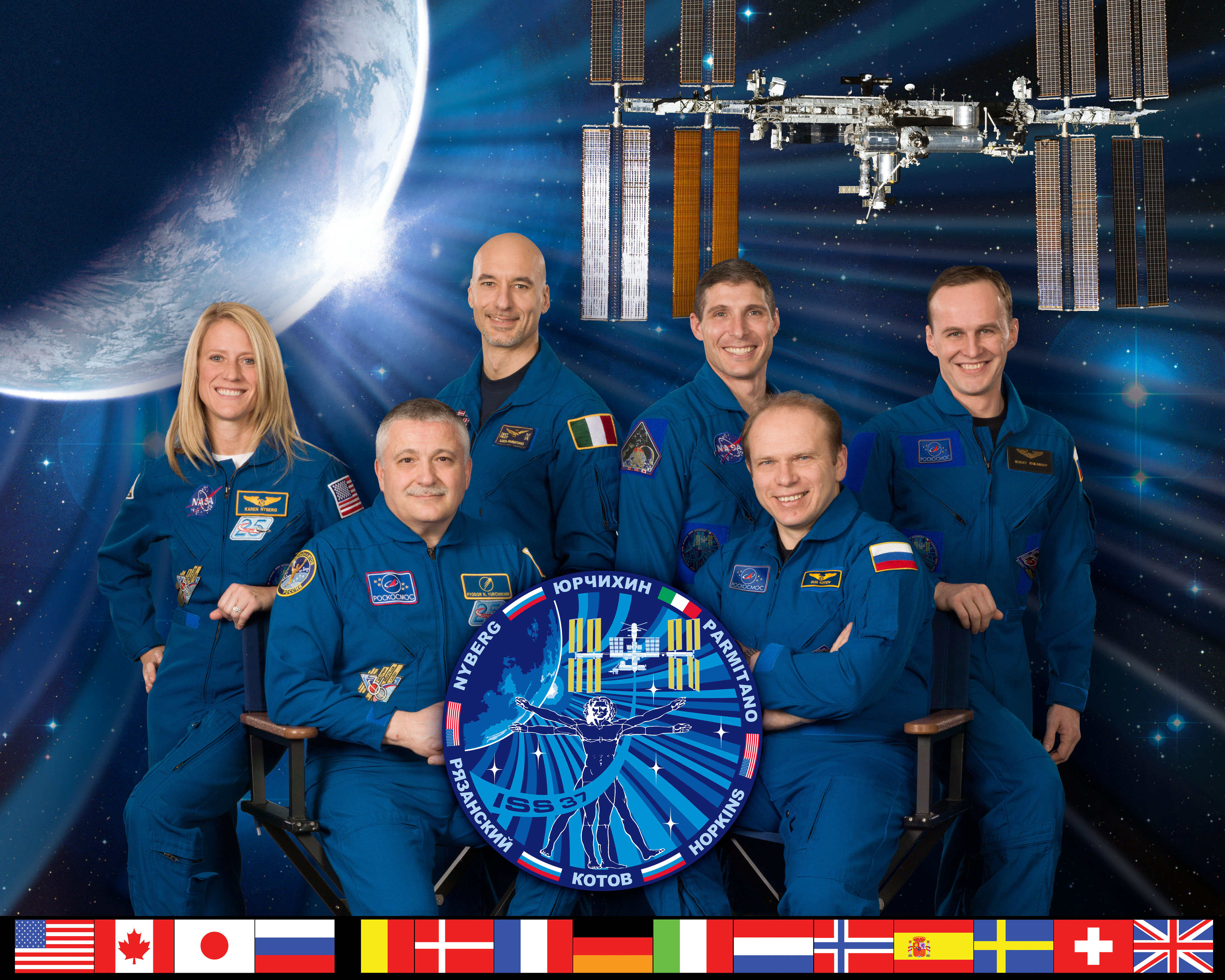 Expedition 37 crew members take a break from training at NASA's Johnson Space Center to pose for a crew portrait. Pictured on the front row are Russian cosmonauts Fyodor Yurchikhin (left), commander; and Oleg Kotov, flight engineer. Pictured from the left (back row) are NASA astronaut Karen Nyberg, European Space Agency astronaut Luca Parmitano, NASA astronaut Michael Hopkins and Russian cosmonaut Sergey Ryazanskiy, all flight engineers.